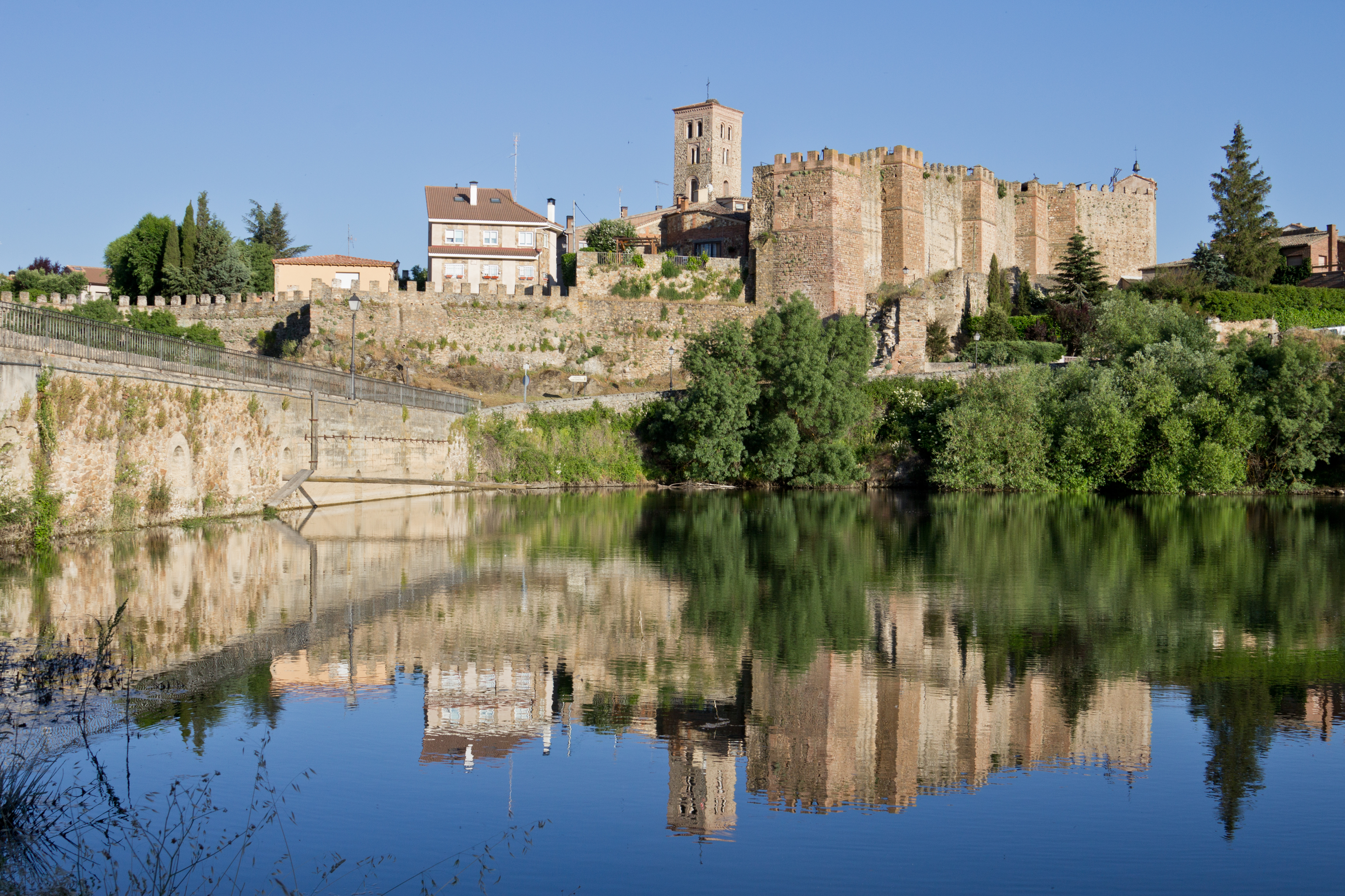 Buitrago del Lozoya, Community of Madrid, Spain.